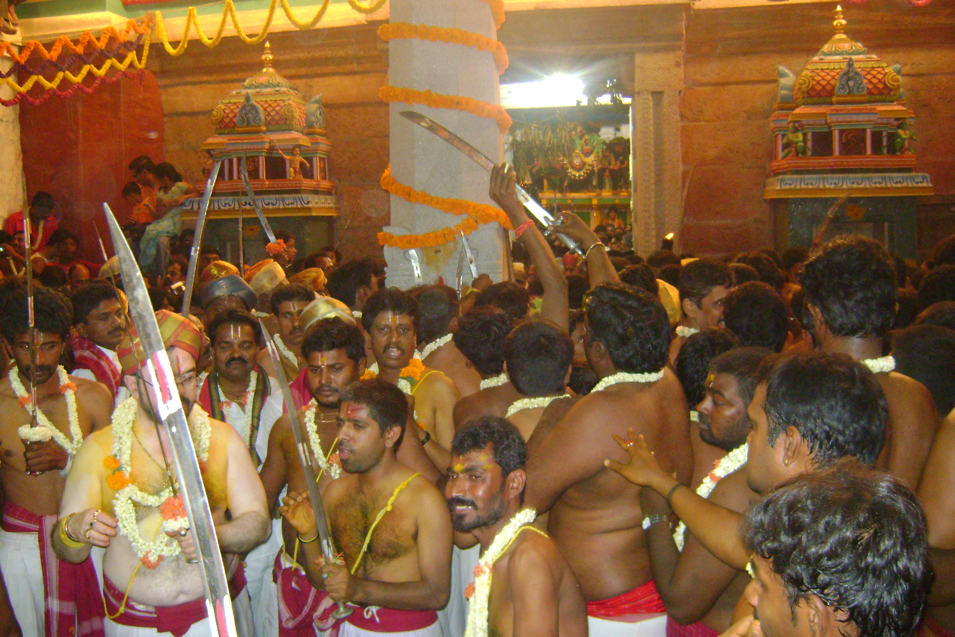 Veerakumaras perform Alagusevai intoning the words "Alalala Di Di Di Dhik Dhee - Dhik Dhee". These young men strike the sword on their bare chests showing there devotion to Draupadi.